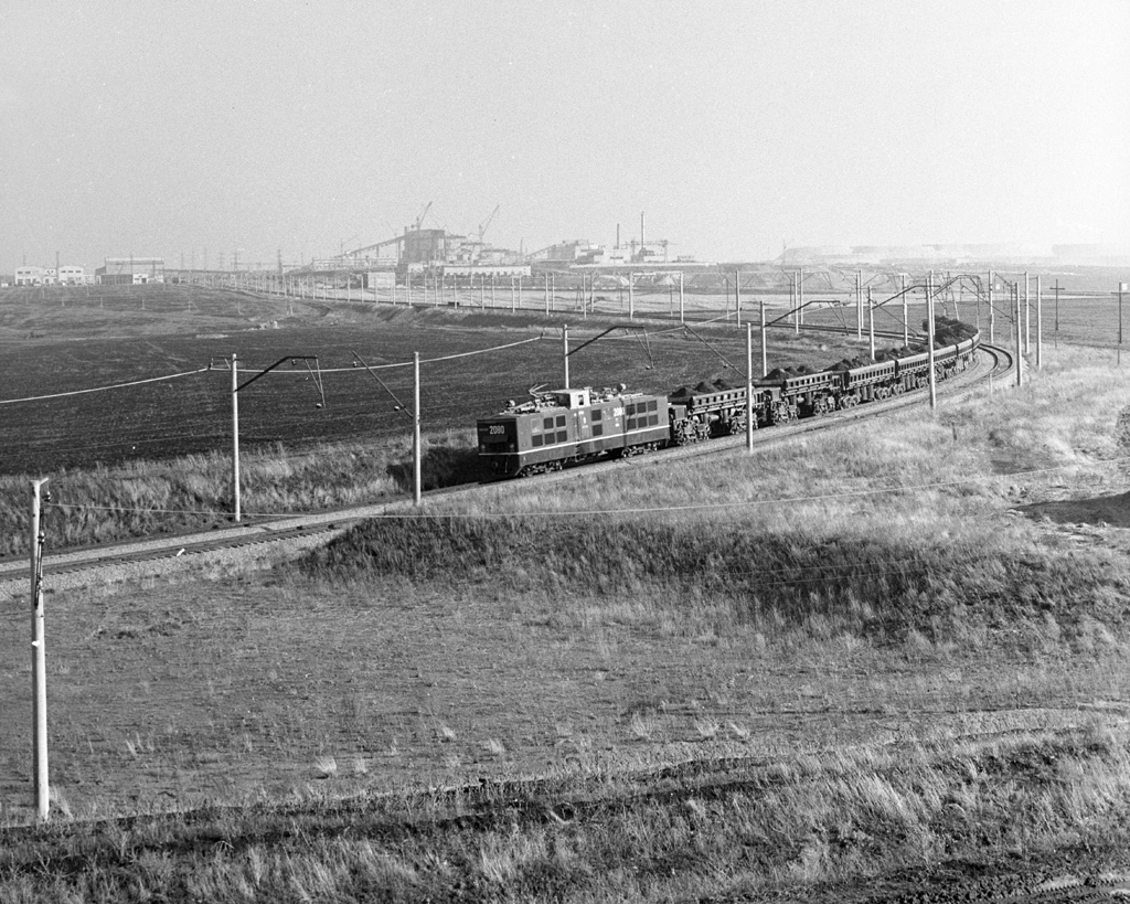 “Lebedinsky Mining and Processing Combine”. All-Union high-powered Komsomol construction site of the Lebedinsky Mining and Processing Combine. City of Gubkin, Russia.